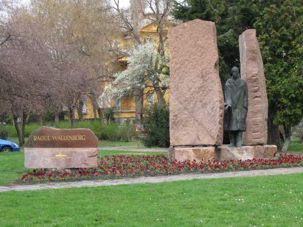 Raoul Wallenberg Memorial - Budapest, 2nd district, Szilágyi Erzsébet fasor - Nagyajtai utca crossing (Hungary). Erected in 1987. Sculptor: Imre Varga